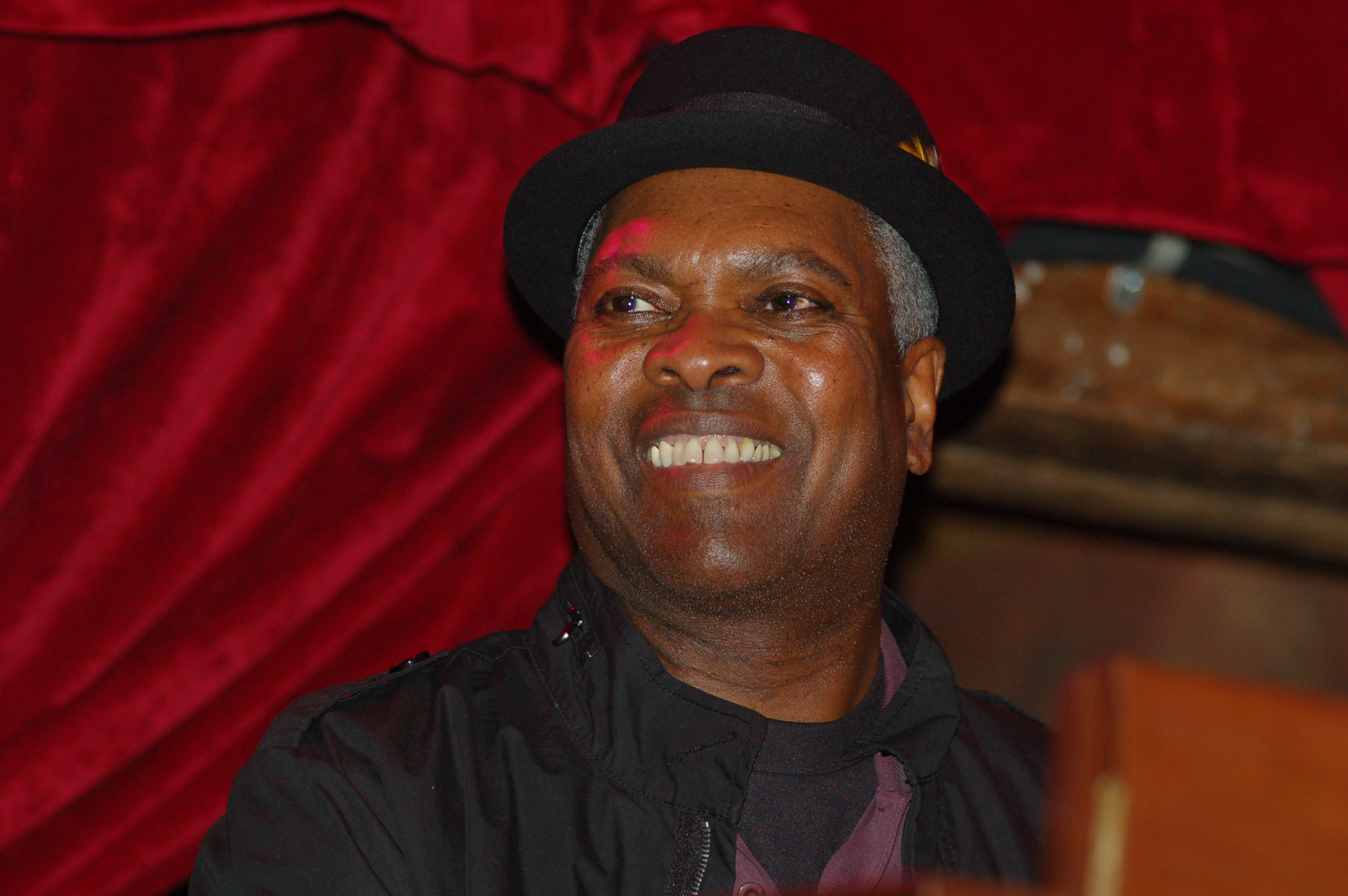 Live at Republic; Booker T of the M.G.s